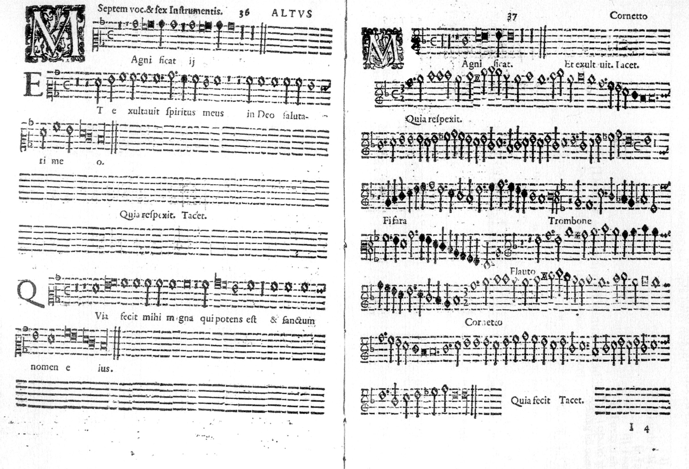 Pages 36–37 of the Alto part of the Magnificat from the vespers for Marian feast days by Claudio Monteverdi. The original is in the Category:Museo internazionale e biblioteca della musica (Bologna)